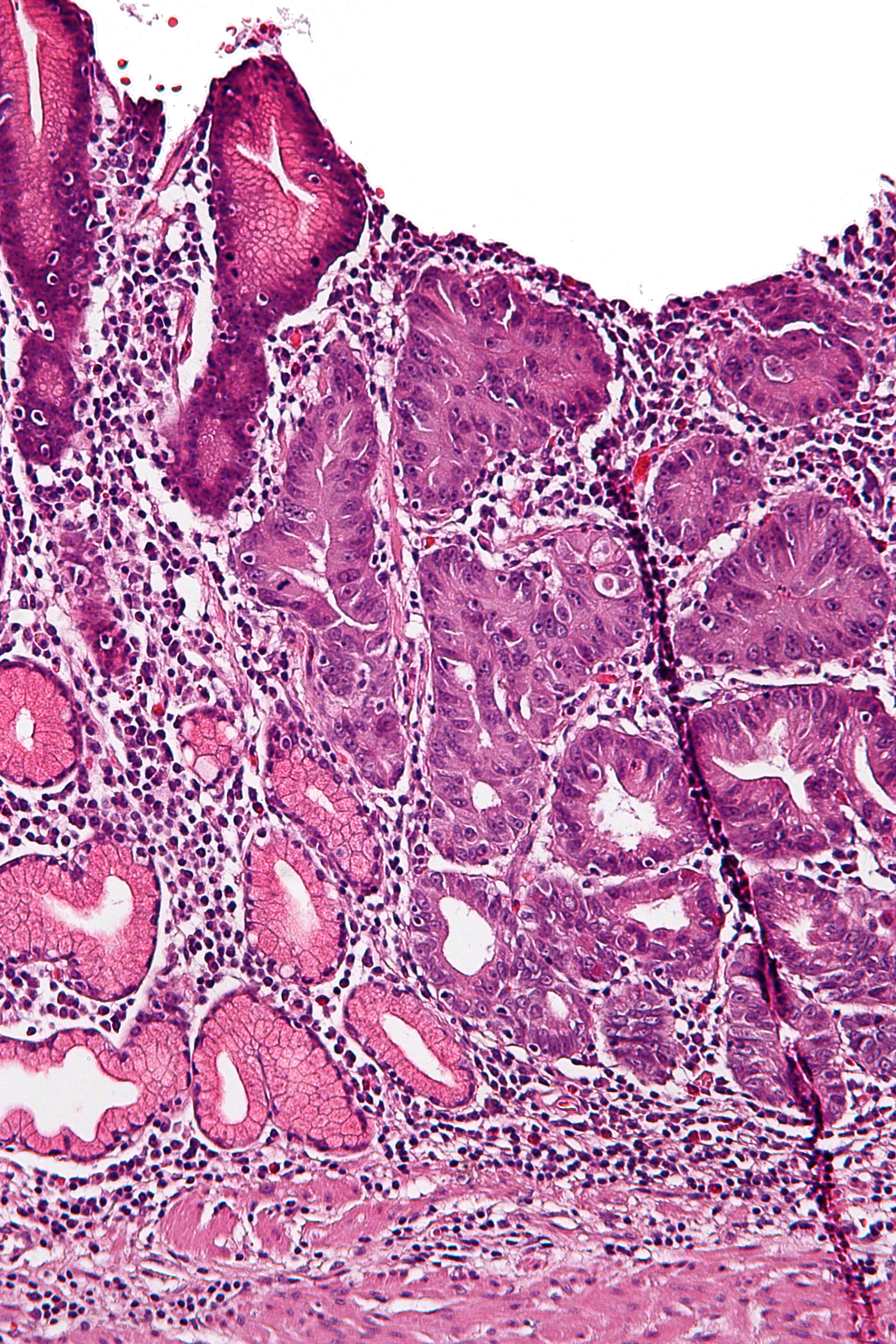 High magnification micrograph of high grade gastric dysplasia, a pre-malignancy of the stomach. Gastrectomy specimen. H&E stain. Related images Low mag. Intermed. mag. High mag. Very high mag.